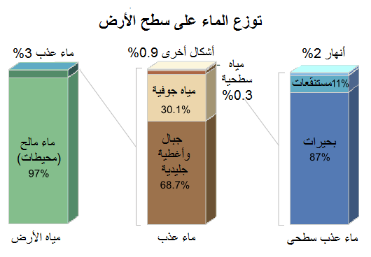 توزع الماء على سطح الأرض